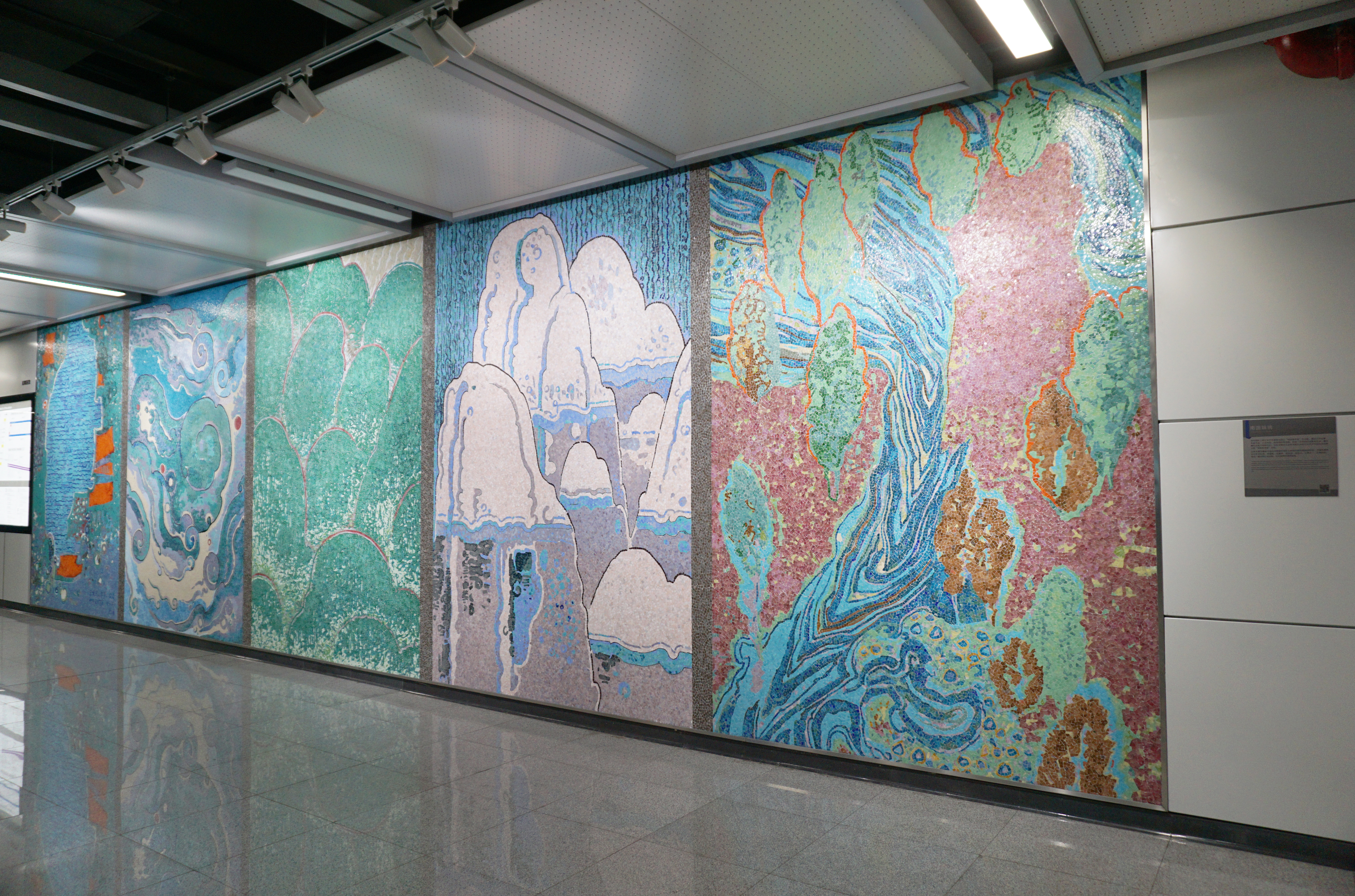 Xili Station in Nanshan District, Shenzhen.